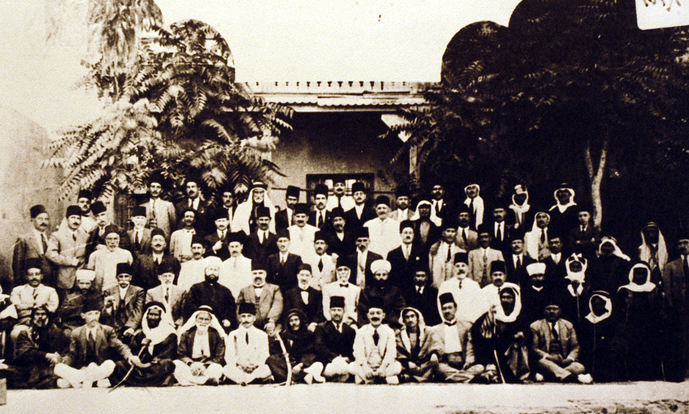 Sixth Palestinian National Congress, Jaffa October 1925. Executive Committee Chairman, Musa Kazim al-Husseini, second row 8th from left.